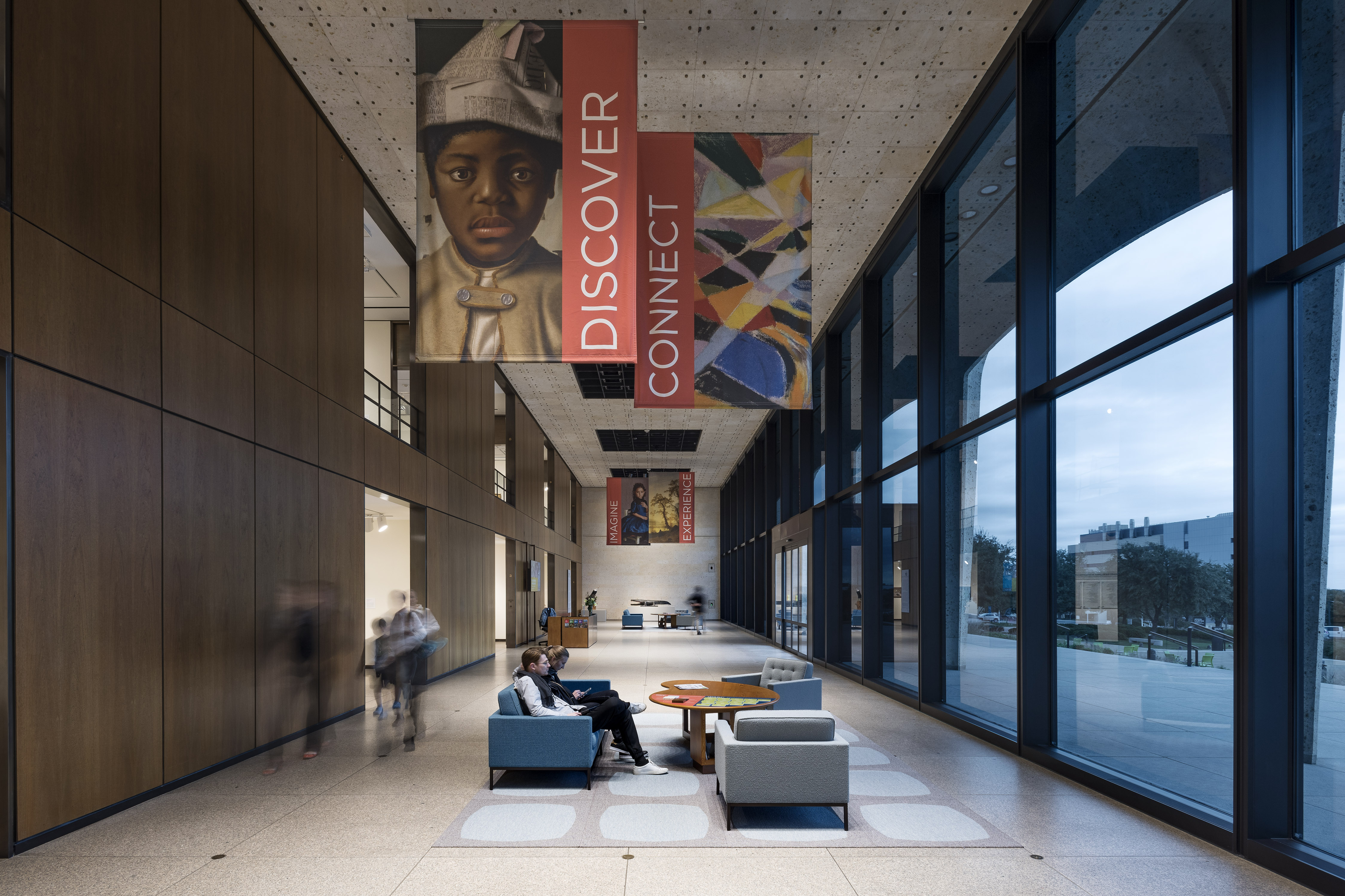 Main gallery of original 1961 building, Amon Carter Museum of American Art, Fort Worth, Texas. November 24, 2015. Photograph by Steven Watson.